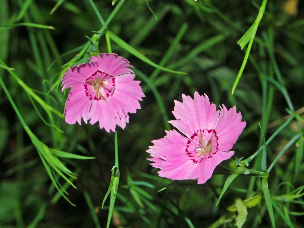 2008-07-06 Varazze, Genova, Italy